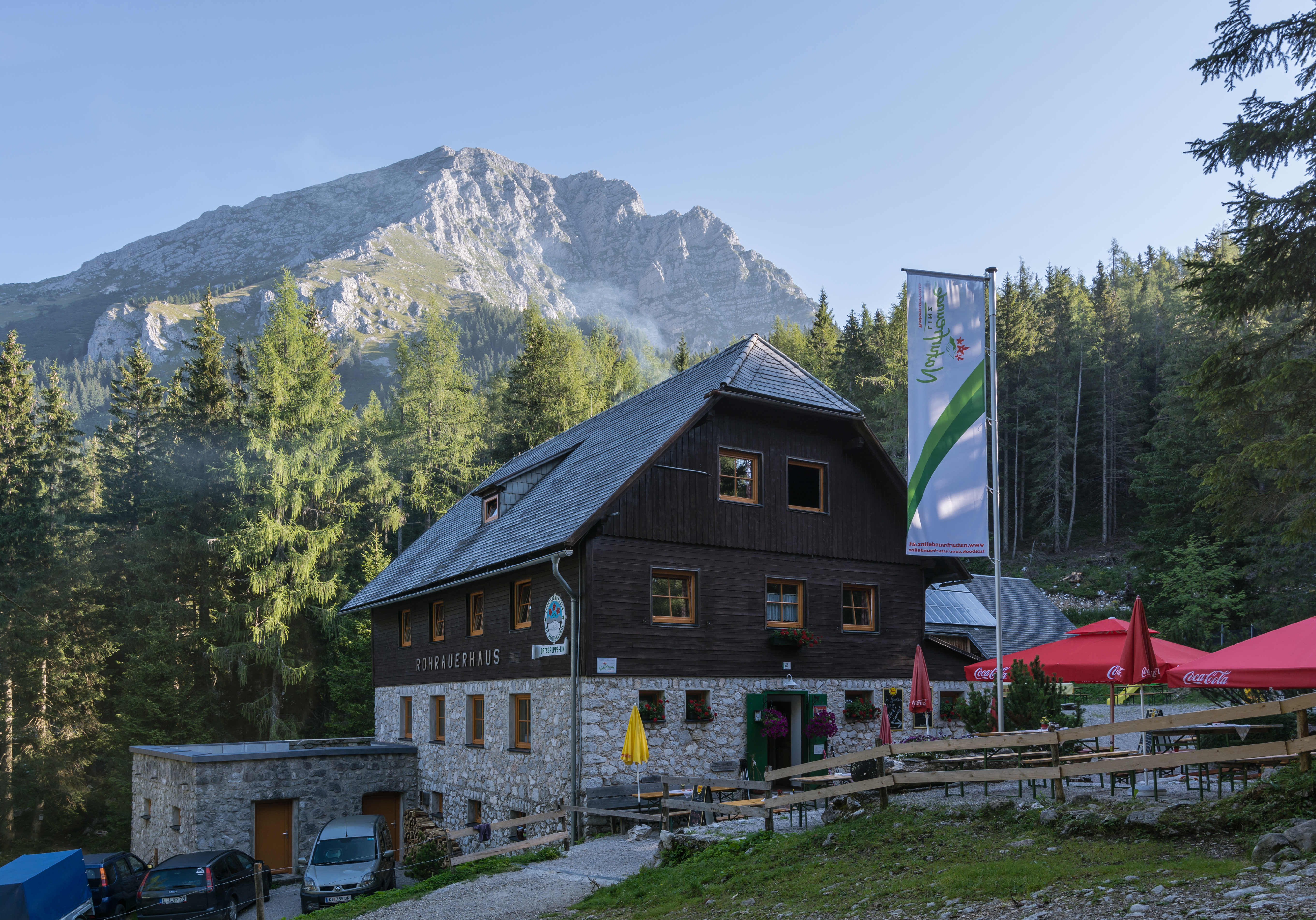 The alpine hut Rohrauer Haus is a house of the Friends of Nature below the mountain Großer Pyhrgas in Spital am Pyhrn in Upper Austria.